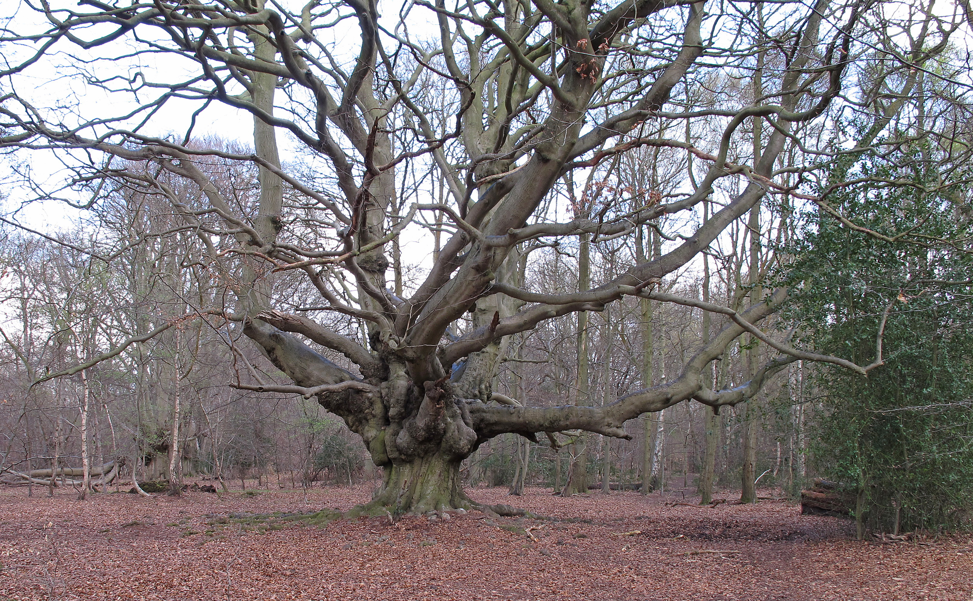 The Queen Beech (or Harry Potter tree). This pollarded beech, known as the "Queen Beech", is at least 350 years old. It was noted by the naturalist Richard Mabey in his book "Beechcombings". The area of Frithsden Beeches was a location for the Harry Potter films. According to the photographer this beech 'played' the Whomping Willow in The Prisoner of Azkaban. The same tree can be seen in Harry Potter and the Goblet of Fire in the scene where Harry Potter and his friends meet up with a schoolmate and his father on their way to the "Quidditch World Cup".